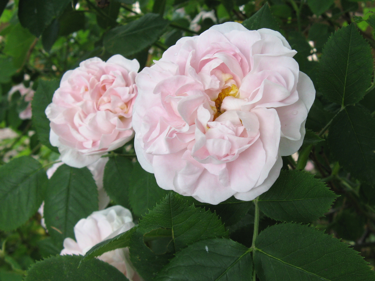 Rosa alba 'Maiden's Blush', Linnaeus's garden, Uppsala